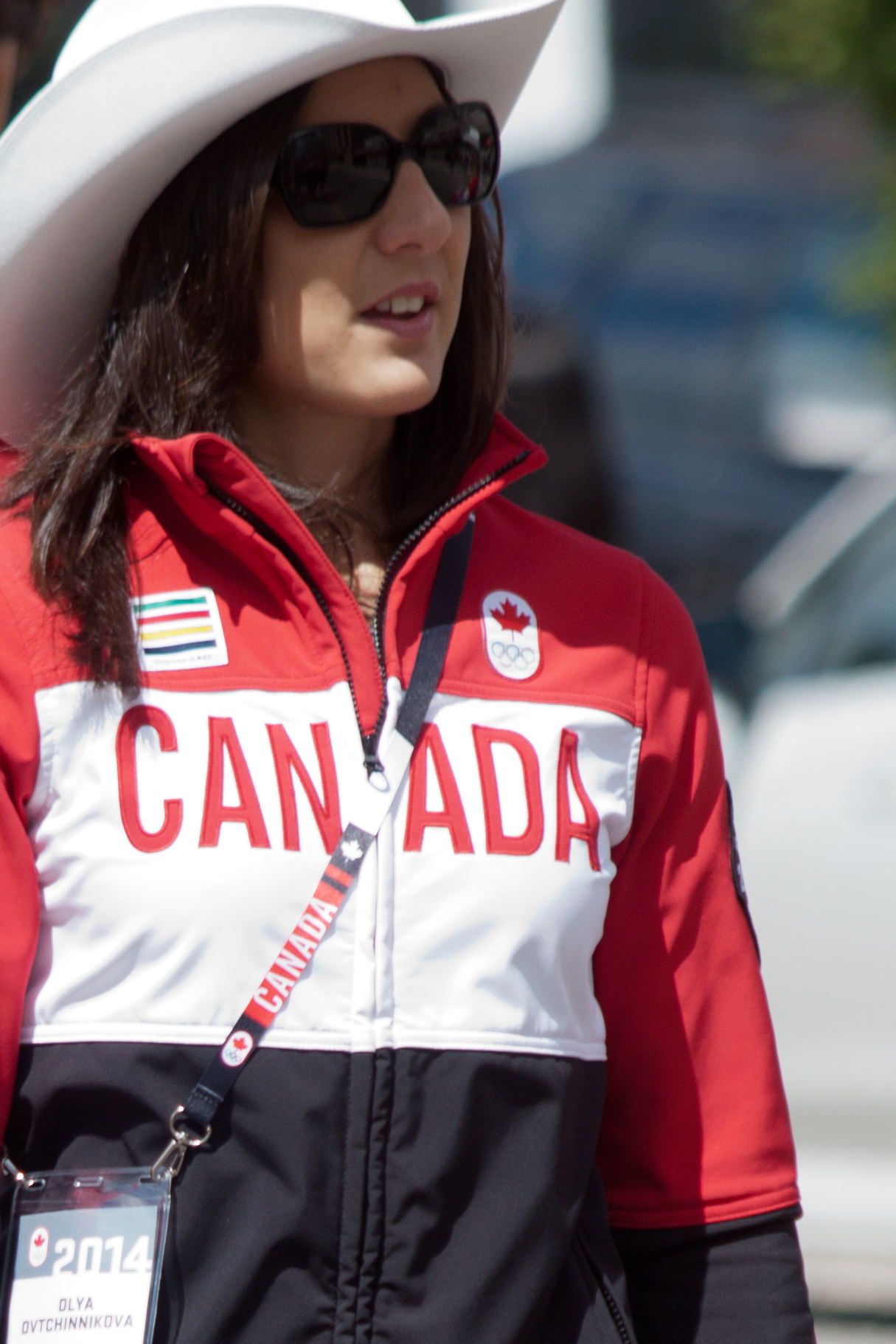 This is Canadian Olympic fencer Olya Ovtchinnikova at the Parade of Champions in Calgary on June 6, 2014. This is a crop of File:Olya Ovtchinnikova 2014-06-06.jpg, to better focus on the main subject.